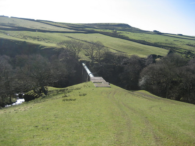 Pipe across Holden Beck. A water pipe crosses a small gorge formed by Holden Beck.